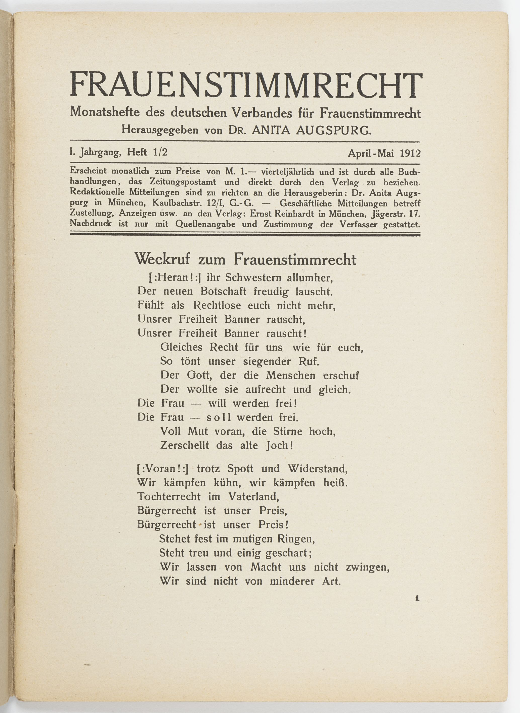 "Frauenstimmrecht. Monatshefte des deutschen Verbandes für Frauenstimmrecht" (Women's Suffrage, monthly issues of German association for women's suffrage) Vol. 1, Issue 1/2, April/Mai 1912, edited by Dr. Anita Augspurg. Cover of journal issue, paper, printed. Contains song text "Wake-up call for Women's suffrage". Photo of issue in repository of Archiv der deutschen Frauenbewegung (Archive of German Women's Movement), Kassel. Photographer: Horst Ziegenfusz on behalf of Historisches Museum Frankfurt (Historical Museum Frankfurt). Published in Dorothee Linnemann (Hrsg.): Damenwahl! 100 Jahre Frauenwahlrecht. Begleitbuch zur Ausstellung. Societäts-Verlag, Frankfurt am Main 2018, ISBN 978-3-95542-306-3, p. 38.